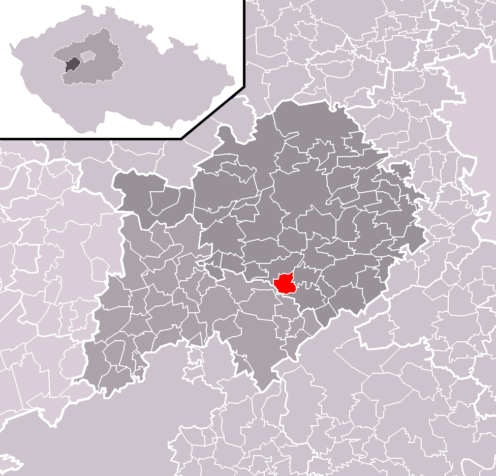 Location of Bykoš municipality within Beroun District and administrative area of Beroun as a Municipality with Extended Competence.